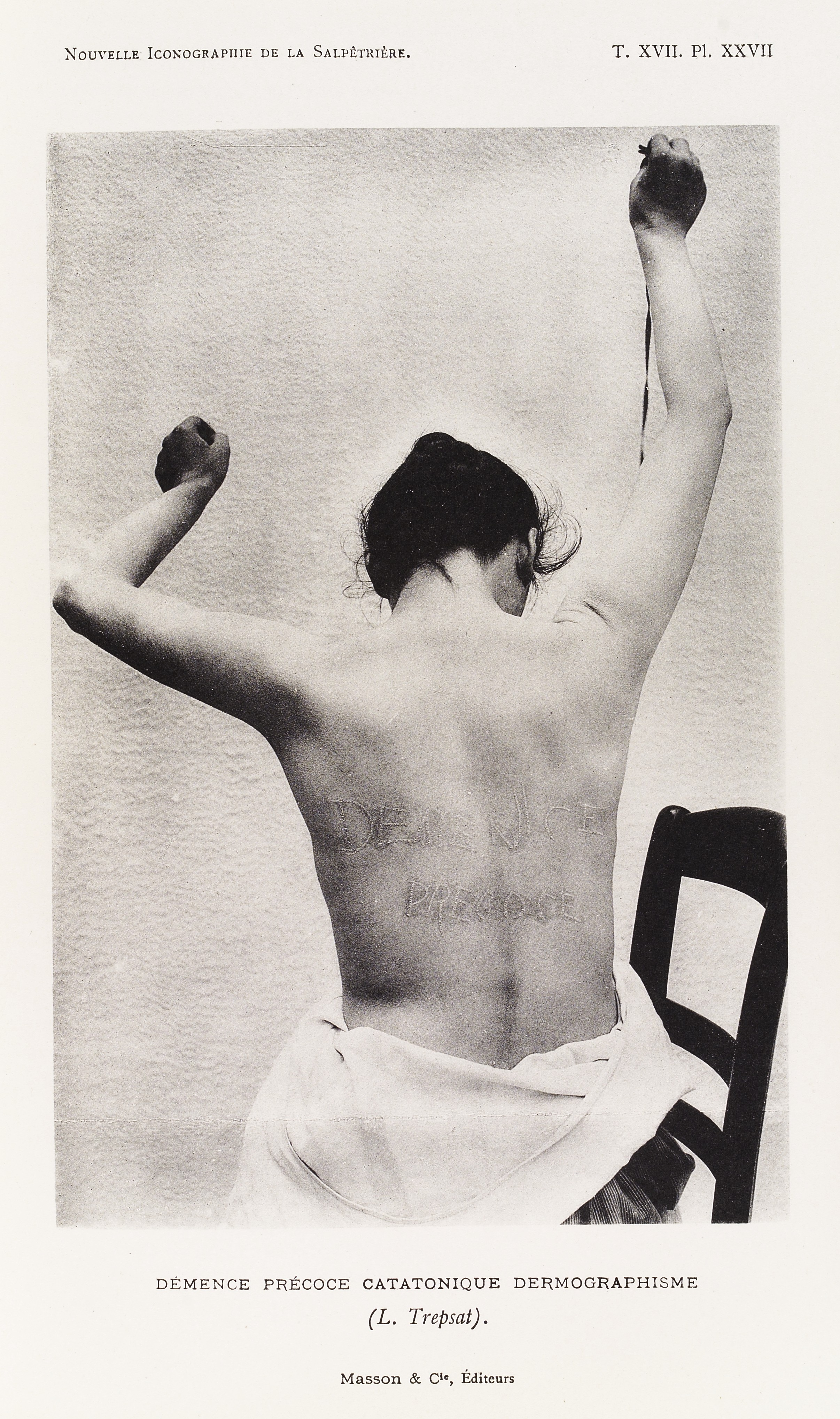 Writing on the back of a female patient "DEMANCE PRECOCE" in French is the English term "dementia praecox" which was gradually replaced by "schizophrenia" General Collections Keywords: L Trepsat; Hôpital Salpêtrière (Paris, France)